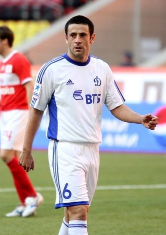 Leandro Fernandez with FC Dynamo Moscow in 2012.